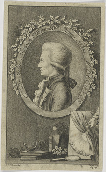 Paul Wolfgang Schwarz nach G. W. Hofmann, Zeichner: Julius Friedrich Knüppeln 1790 Leipzig, Universitätsbibliothek Leipzig, Porträtstichsammlung, Inventar-Nr. 26/153